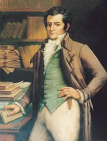 Portrait of Diego Bautista Urbaneja